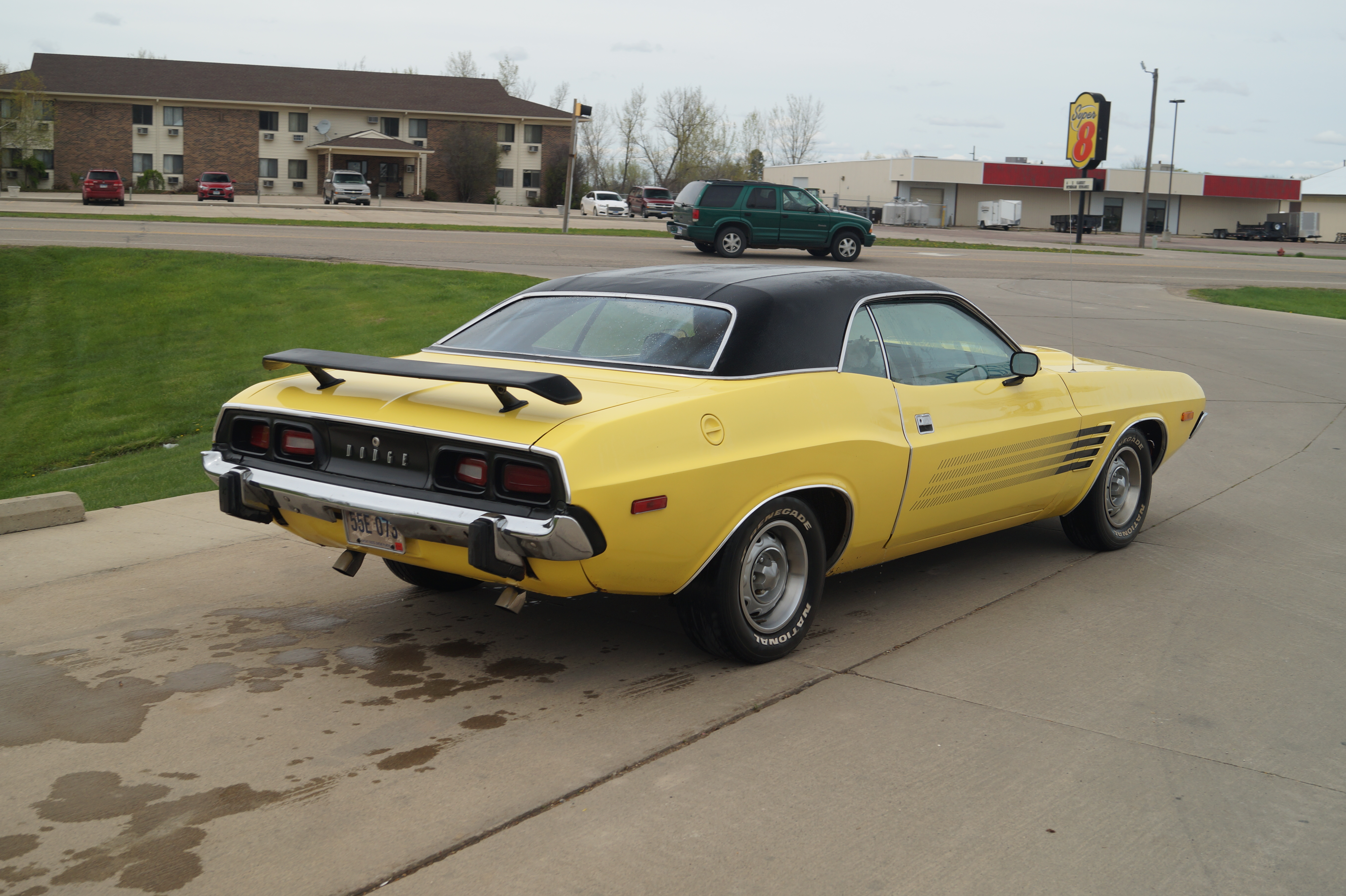 Click here for more car pictures at my Flickr site.